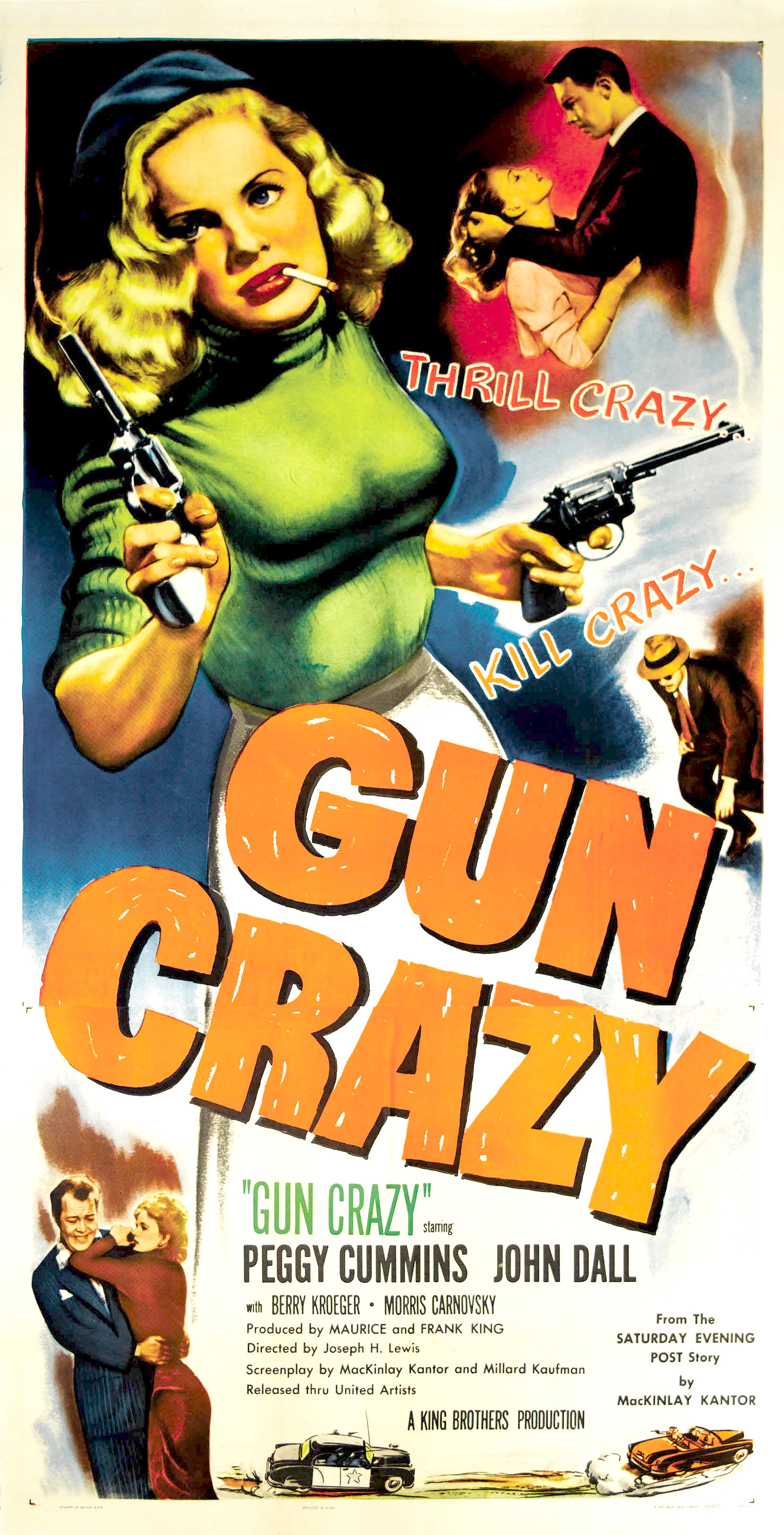 Theatrical release poster of the 1950 American film Gun Crazy. Three sheet size (27" × 41).